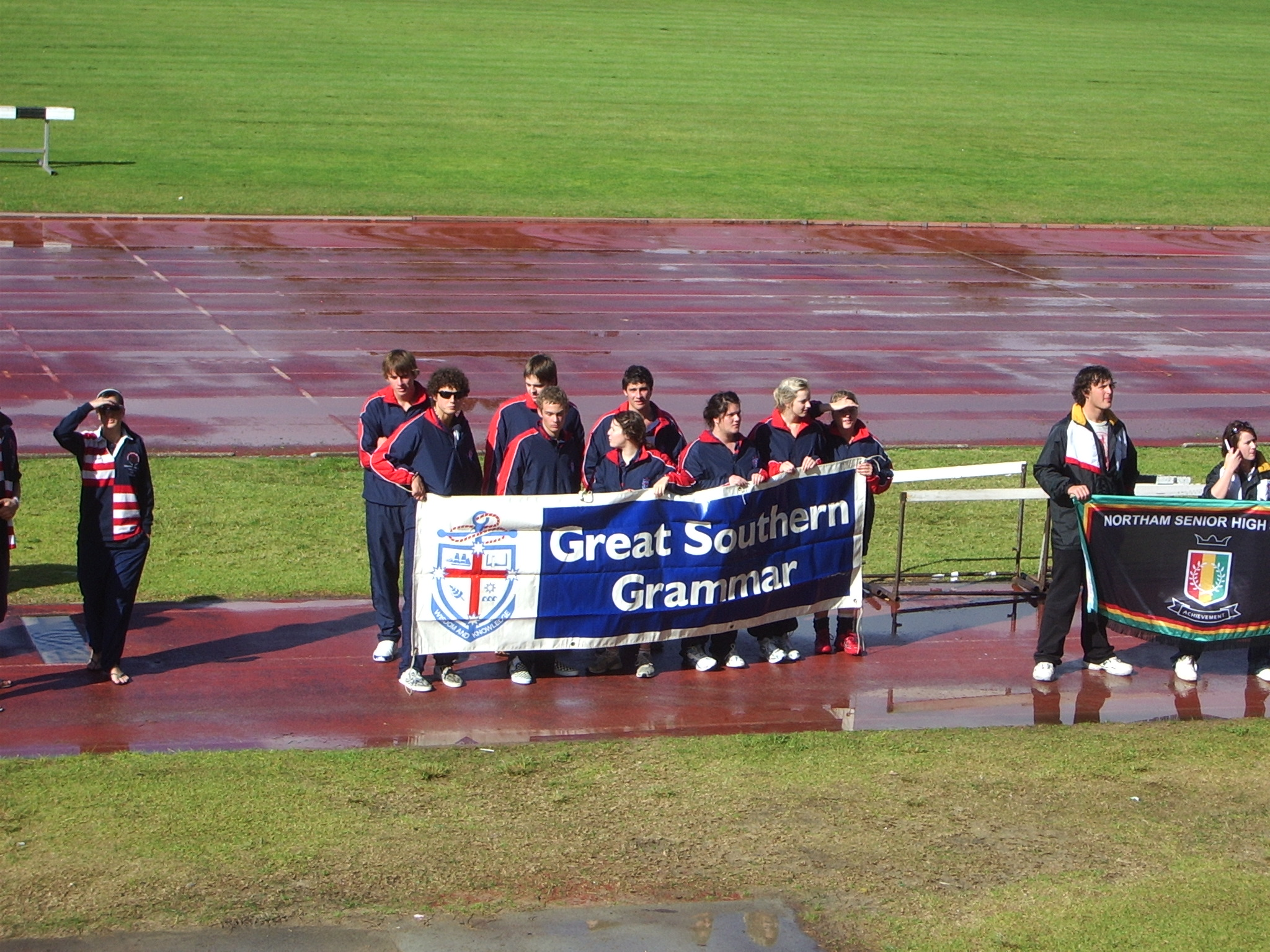 GSG School captains at countryweek 2008 opening ceremony